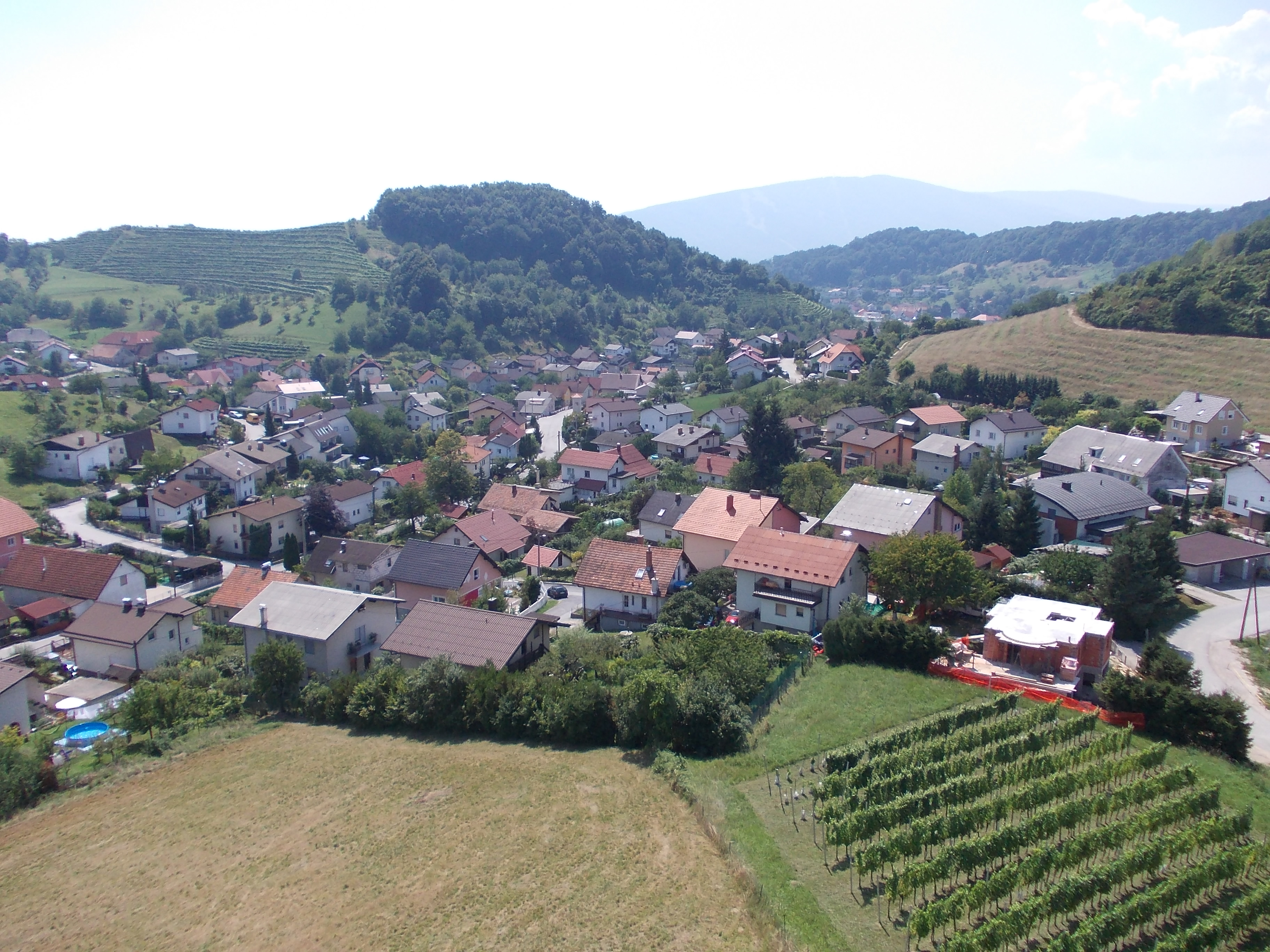 View on Košaki from the tower of Blessed Anton Martin Slomšek Church, Maribor